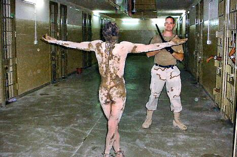 1:25 p.m., Nov. 12, 2003. SSG FREDRICK has what appears to be a stick or club in his hands, while he is standing by a detainee. SOLDIER(S): SSG FREDRICK. All caption information is taken directly from CID materials. U.S. Army / Criminal Investigation Command (CID). Seized by the U.S. Government. Note: An Abu Ghraib naked prisoner is covered in mud and what appears to be feces. A baton-wielding prison guard appears to be ordering a detainee to walk a straight line with his ankles handcuffed.